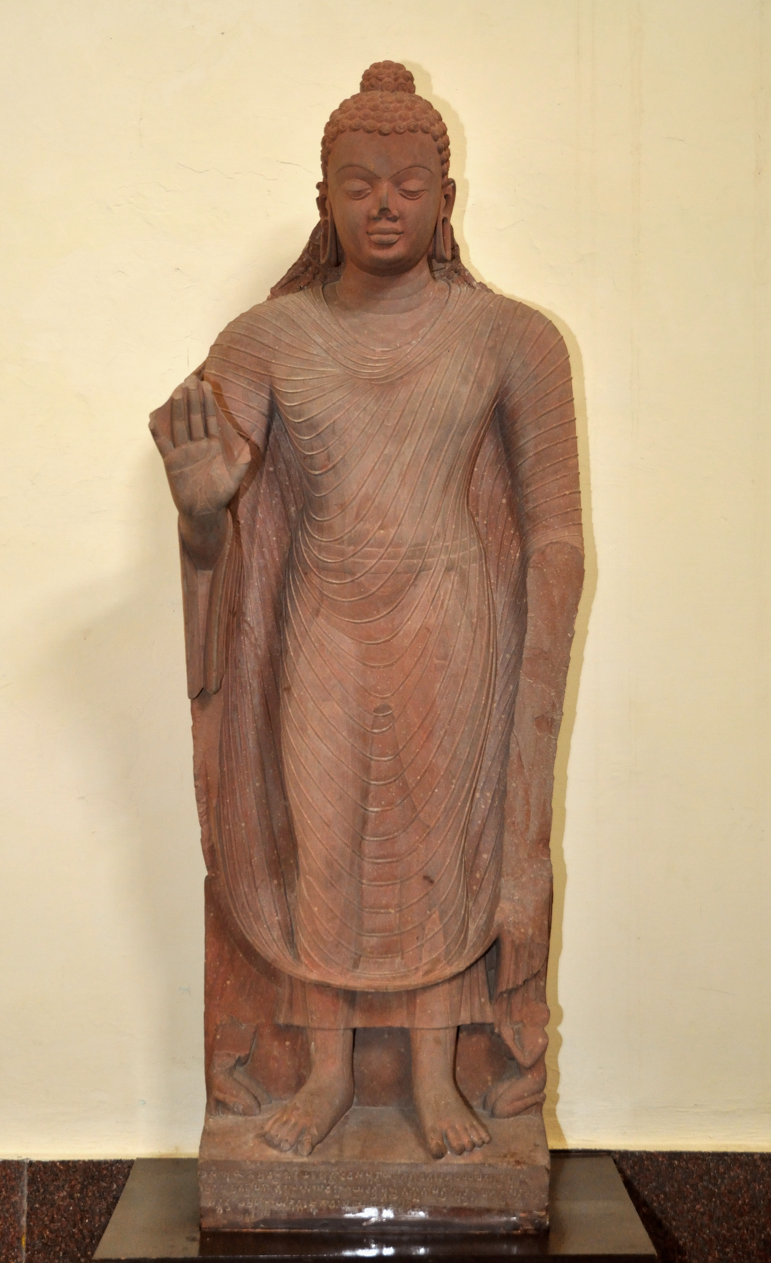 Standing Buddha Set-up by Buddist Monk Yasadinna - 434 CE - Govind Nagar - ACCN 76-25 - Government Museum - Mathura 2013-02-23 5548 (retouched)